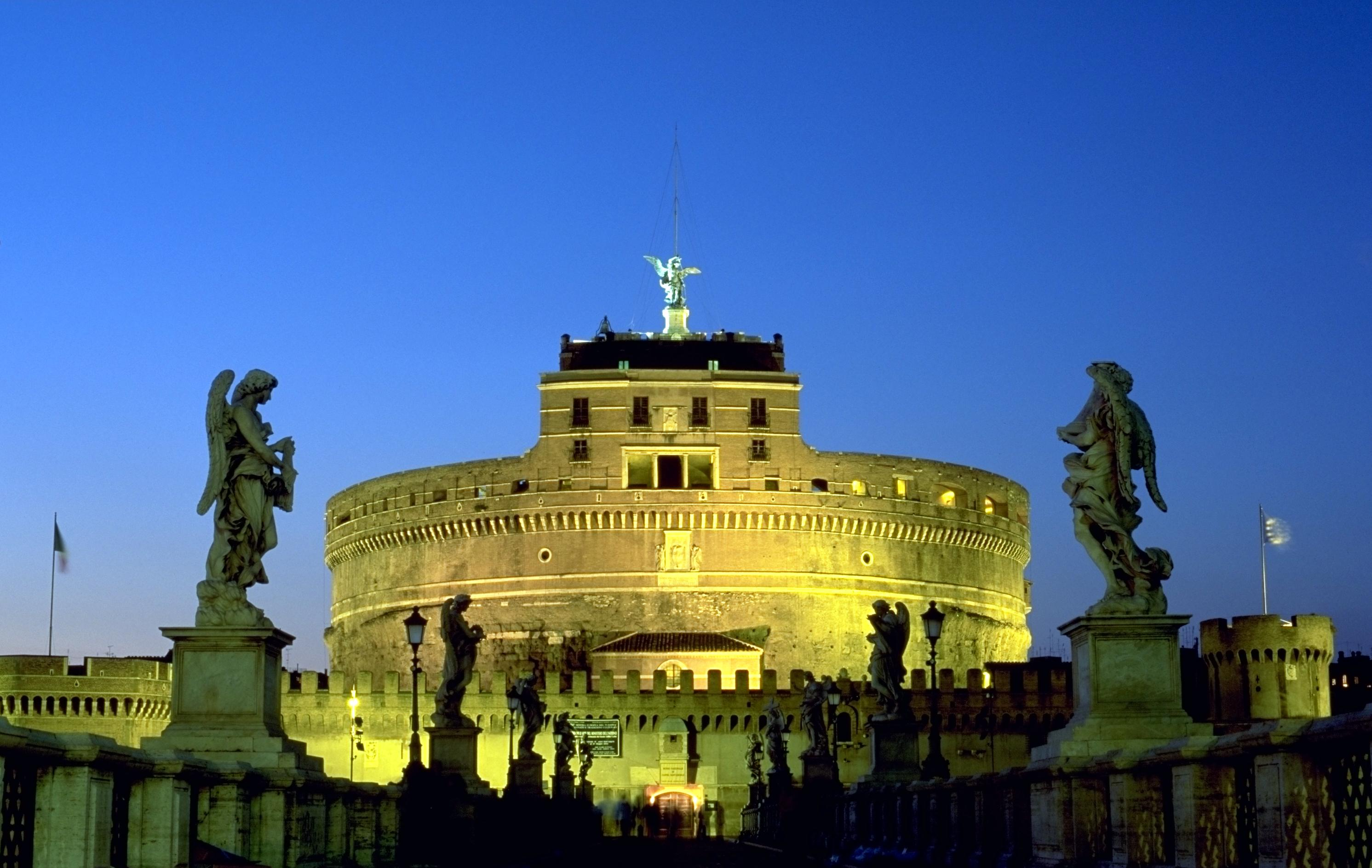 Castel Sant' Angelo, Roma.